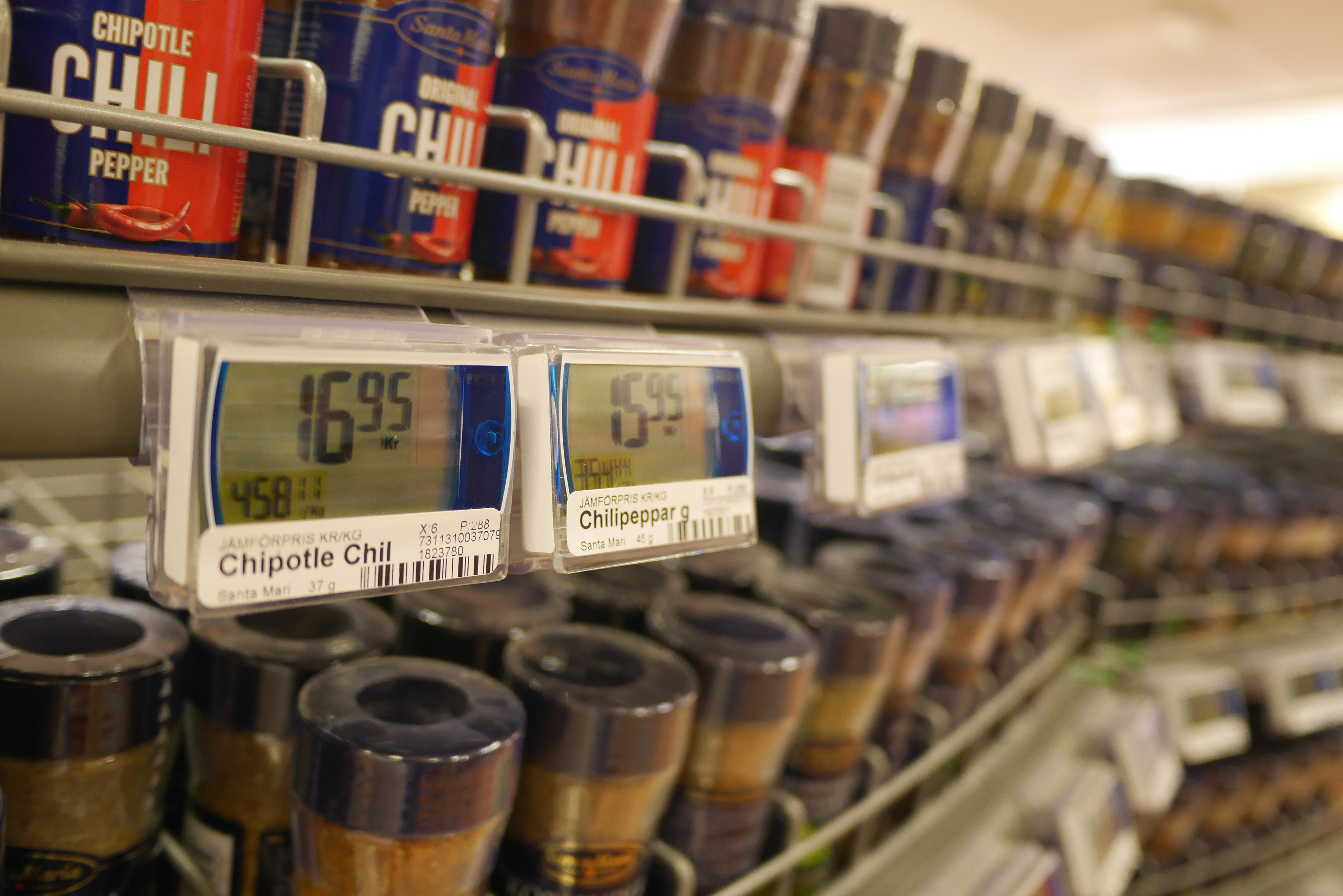 Jars of Chili, with electronic shelf tags.